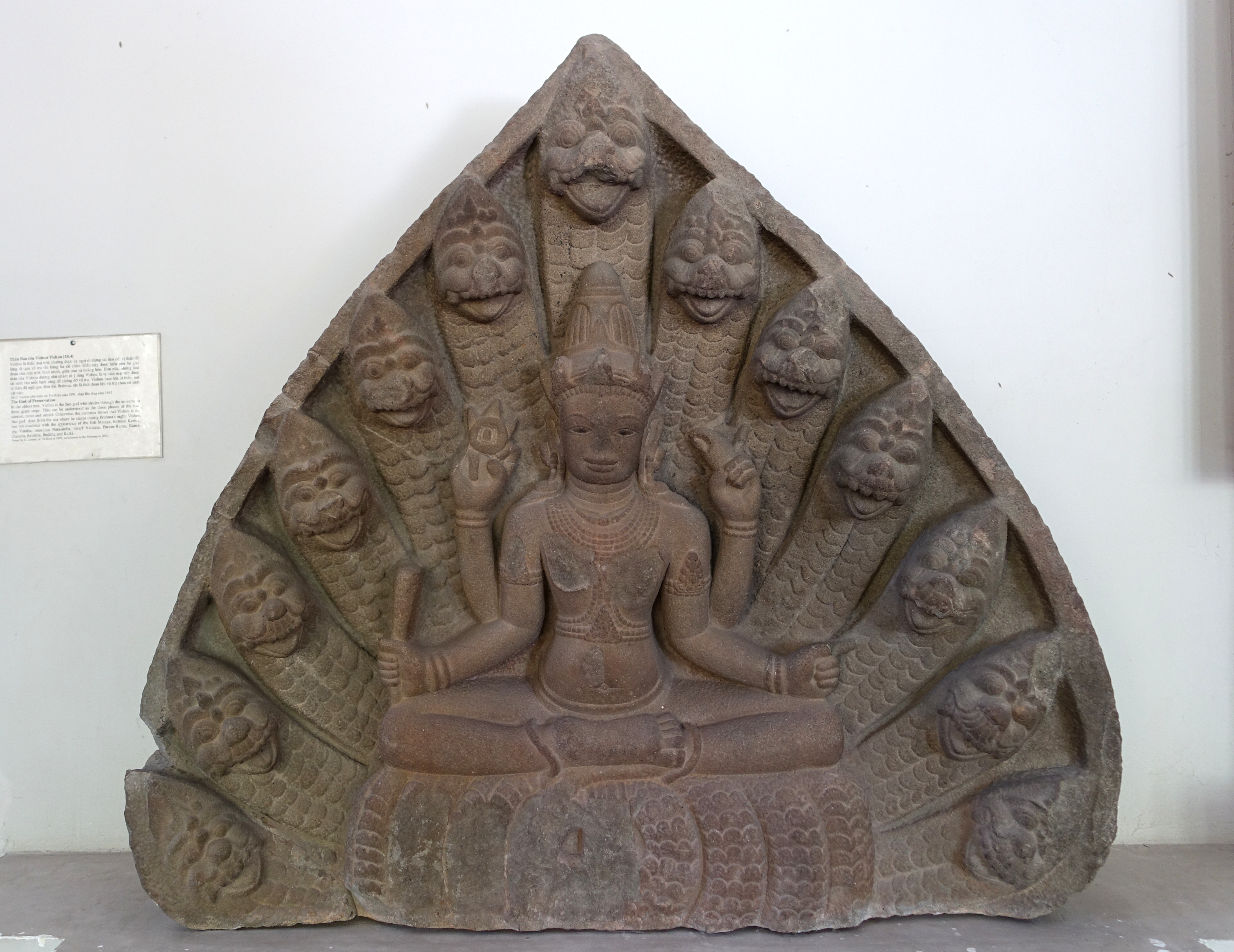 Cham sculpture at the Museum of Cham Sculpture, Da Nang, Vietnam. This artwork is in the public domain because the artist died more than 70 years ago.